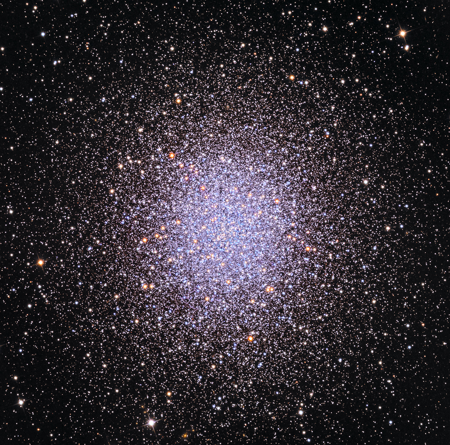 M13 Picture Details: Optics 32-inch Schulman RC Optical Systems Telescope Camera SBIG STX 16803 CCD Camera Filters AstroDon Gen II Dates May 2016 Location Mount Lemmon SkyCenter Exposure RGB = 5 : 5 : 5 Hours Acquisition Maxim DL/CCD (Cyanogen), AStronomer Control Panel (DC3- Dreams) Processing CCDStack (CCDWare), Photoshop CC, PixInsight Credit Line and Copyright Adam Block/Mount Lemmon SkyCenter/University of Arizona .